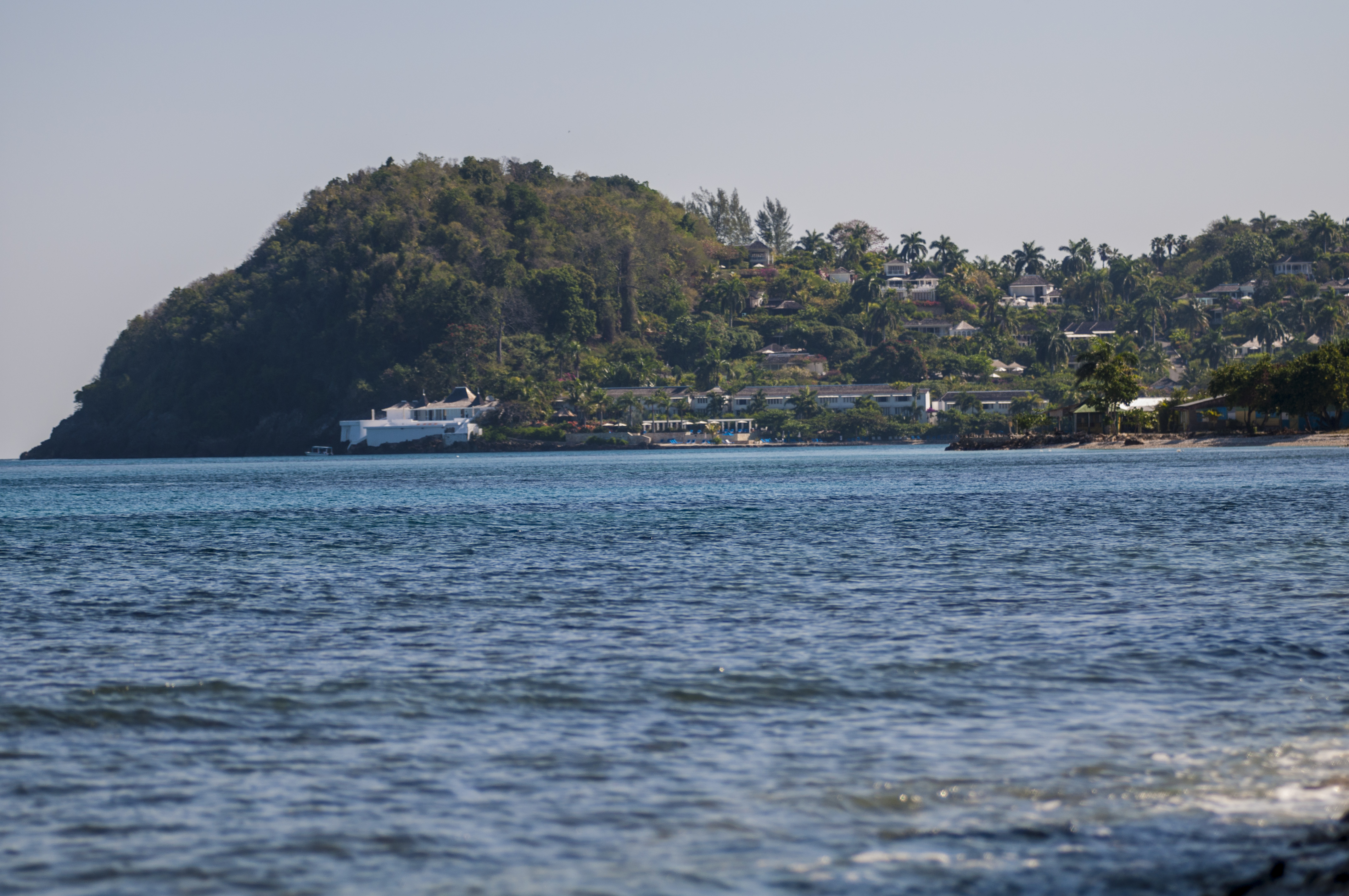 Hopewell Jamaica Round Hill Resort Photo D Ramey Logan